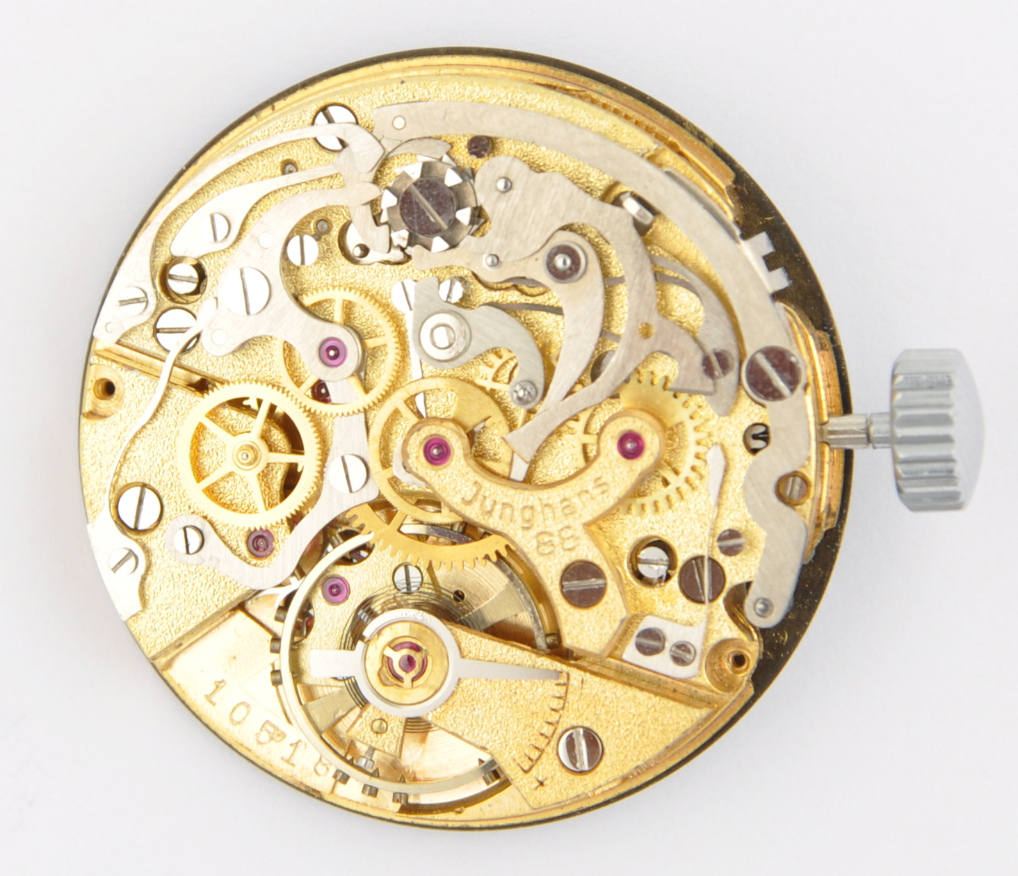 Junghans calibre J88